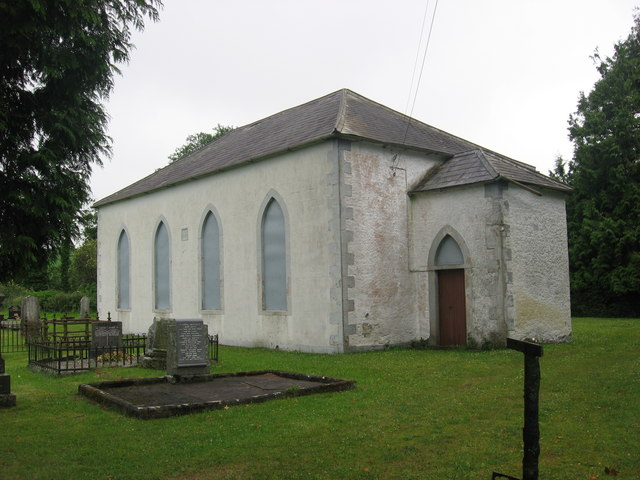 Glasleck Presbyterian church On the road between Shercock and Bailieborough. Erected 1836, now closed.